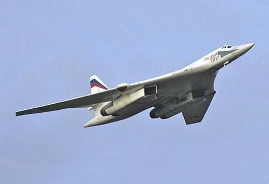 Murmansk Region, Olenegorsk. The strategic bomber Tu-160.